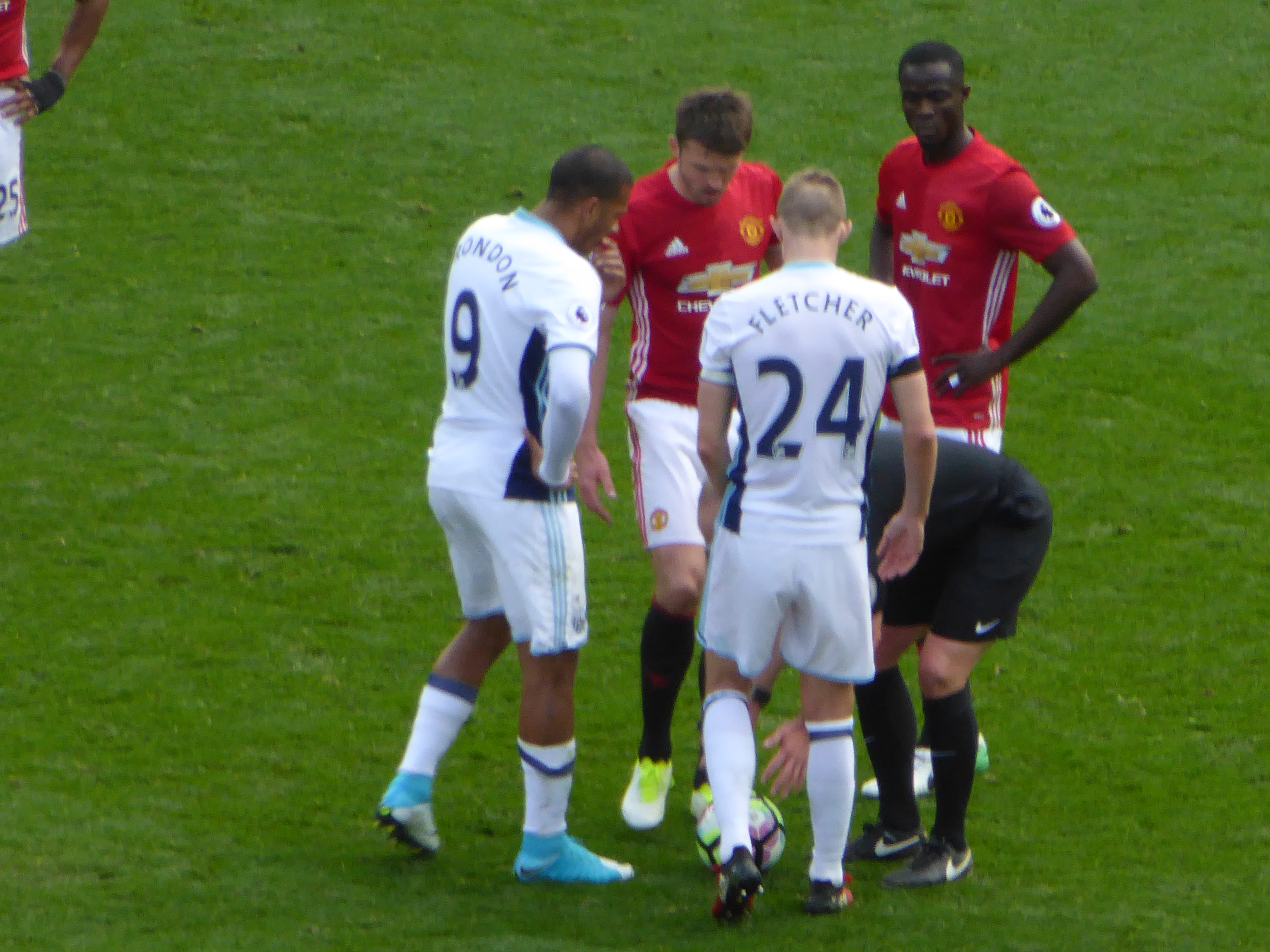 Manchester United v West Bromwich Albion (0-0), Premier League, Old Trafford, Manchester, Greater Manchester, England, 1 April 2017